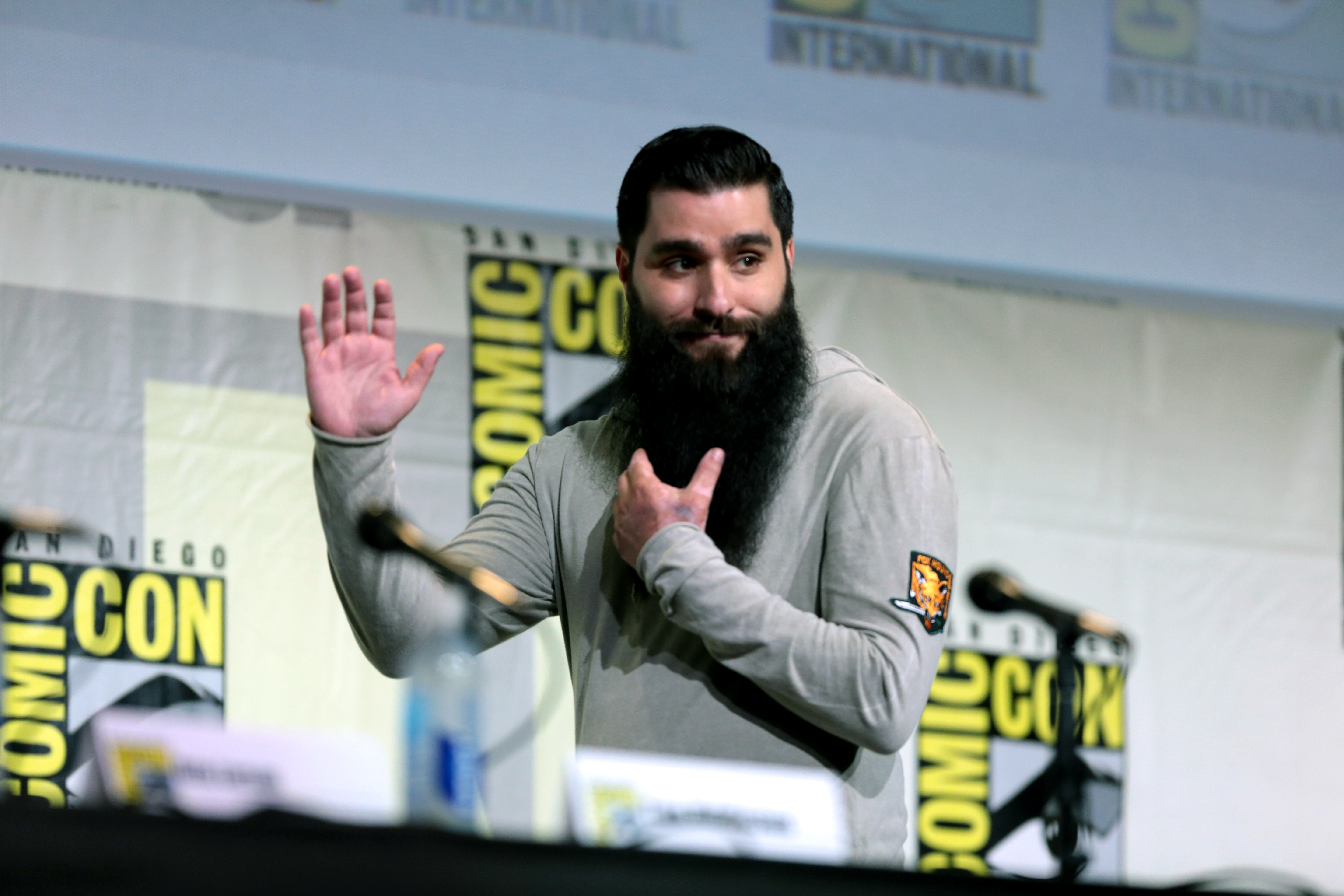 Jordan Vogt-Roberts speaking at the 2016 San Diego Comic Con International, for "Kong: Skull Island", at the San Diego Convention Center in San Diego, California.